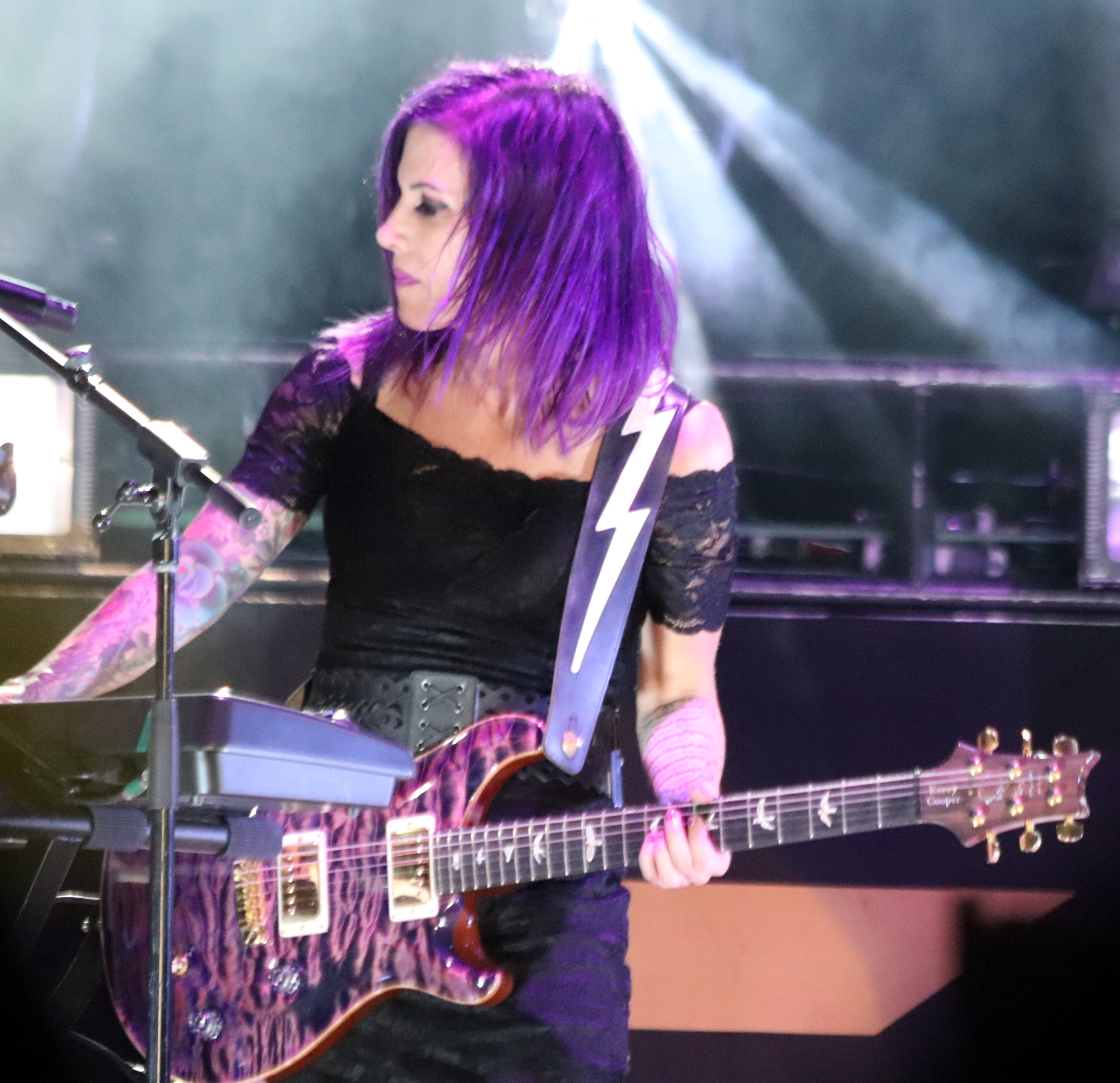 Korey Cooper playing keyboards with her band Skillet at Lifest.